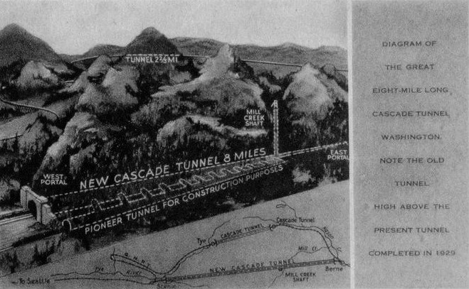 Postcard illustration of the new Cascade Tunnel near Everett, Washington, which was completed in 1929.